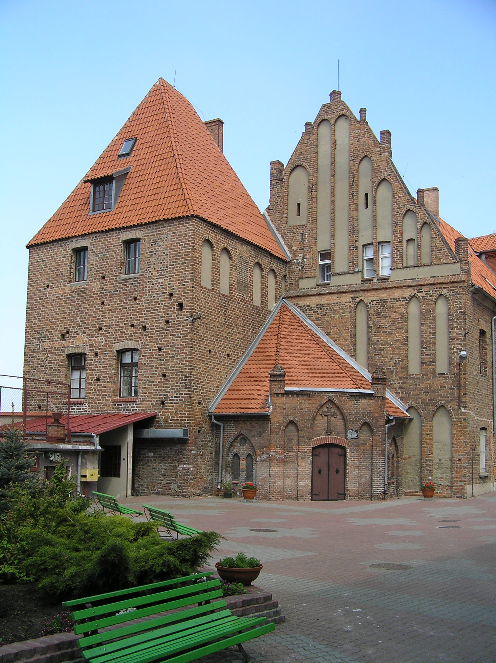 Chełmno, Tower of Mestwin (probable Teutonic Knights' watchtower) and western gable of Cistercian nunnery